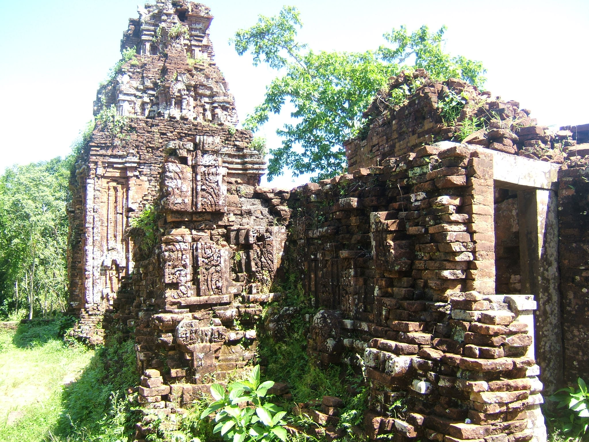 My Son towers